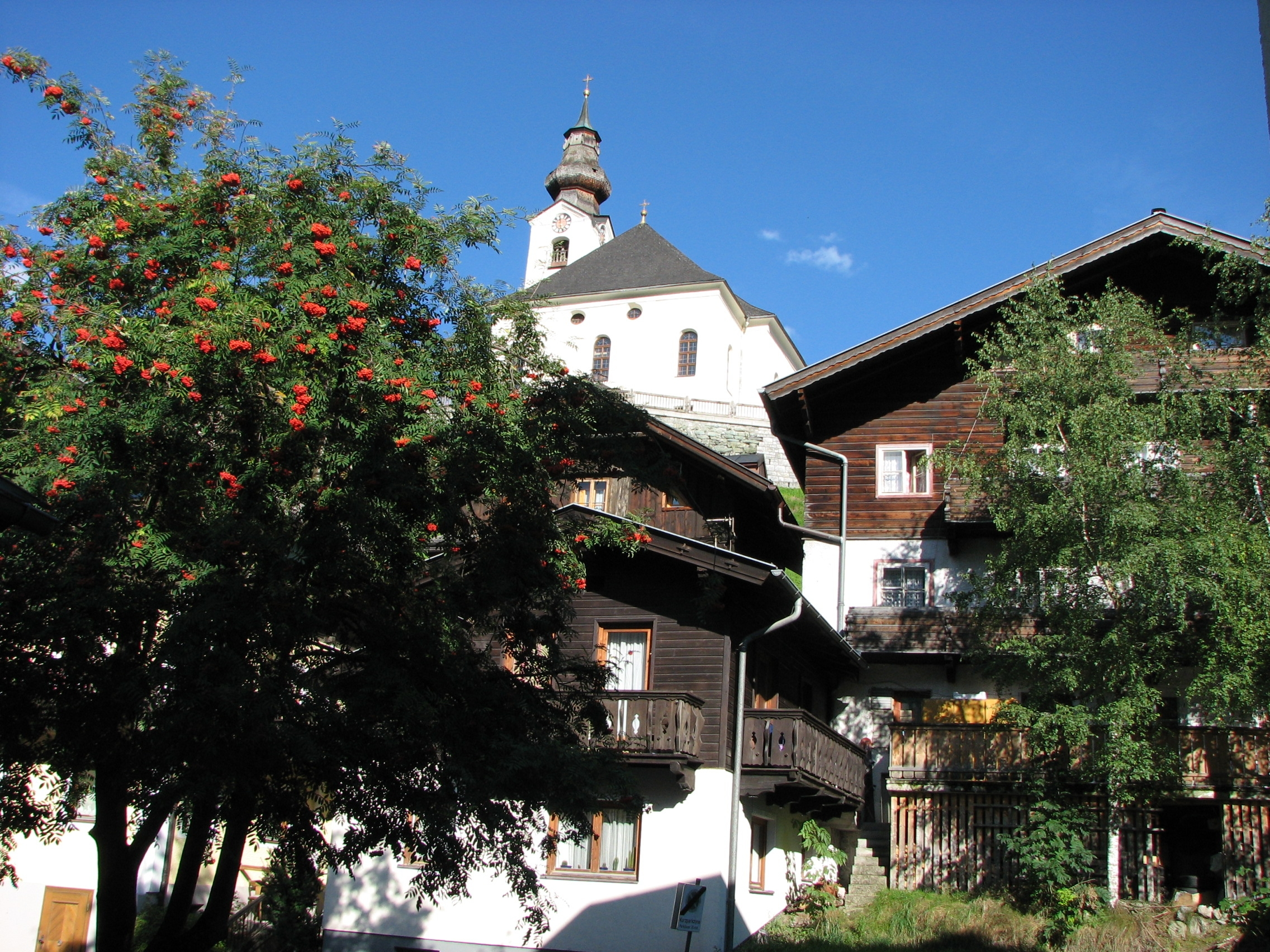 Centre of Grossarl in Salzburg Land